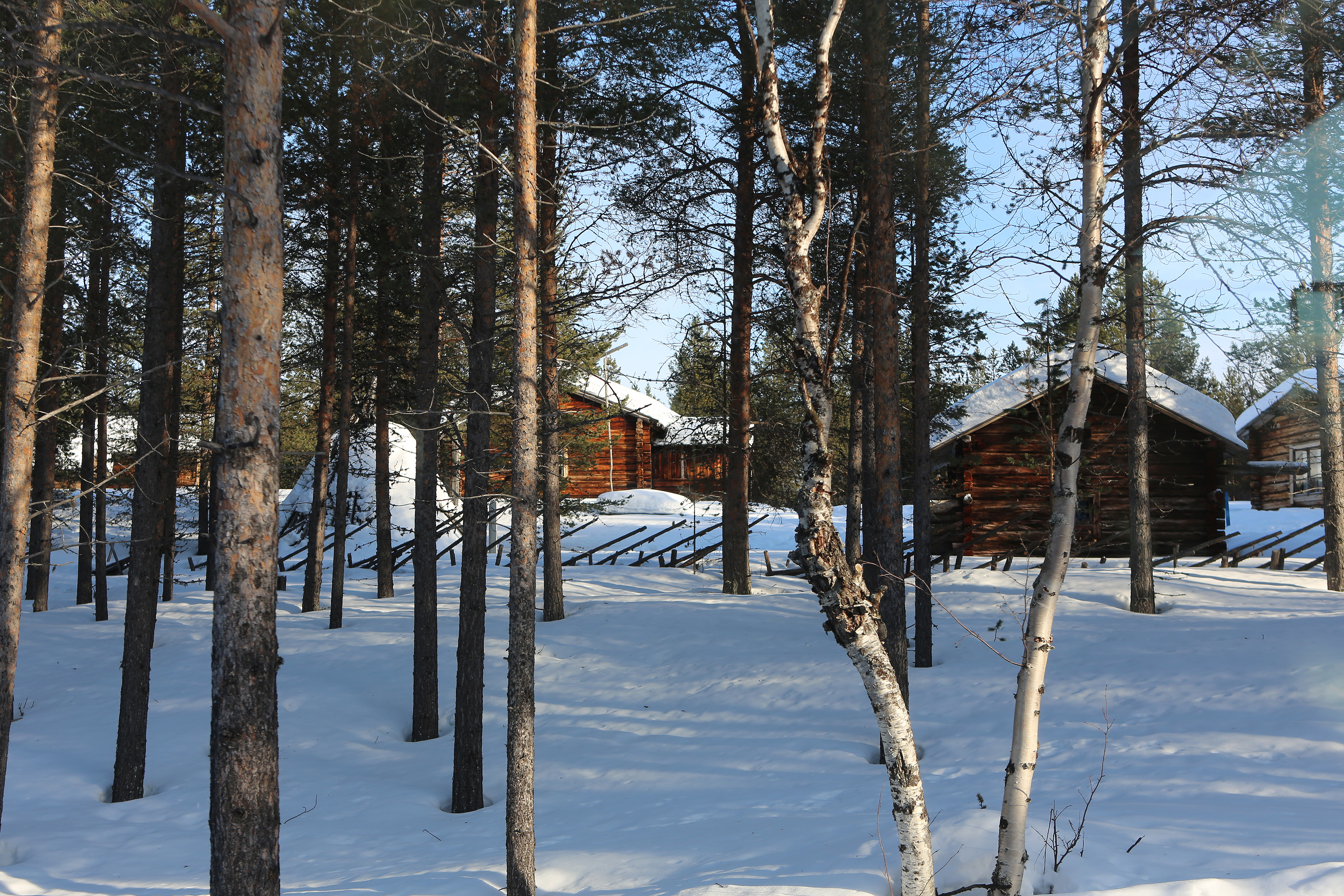 Siida museum, dedicated to the history and culture of the Sámi people, in Inari, municipality of Inari, Finland; outdoor area